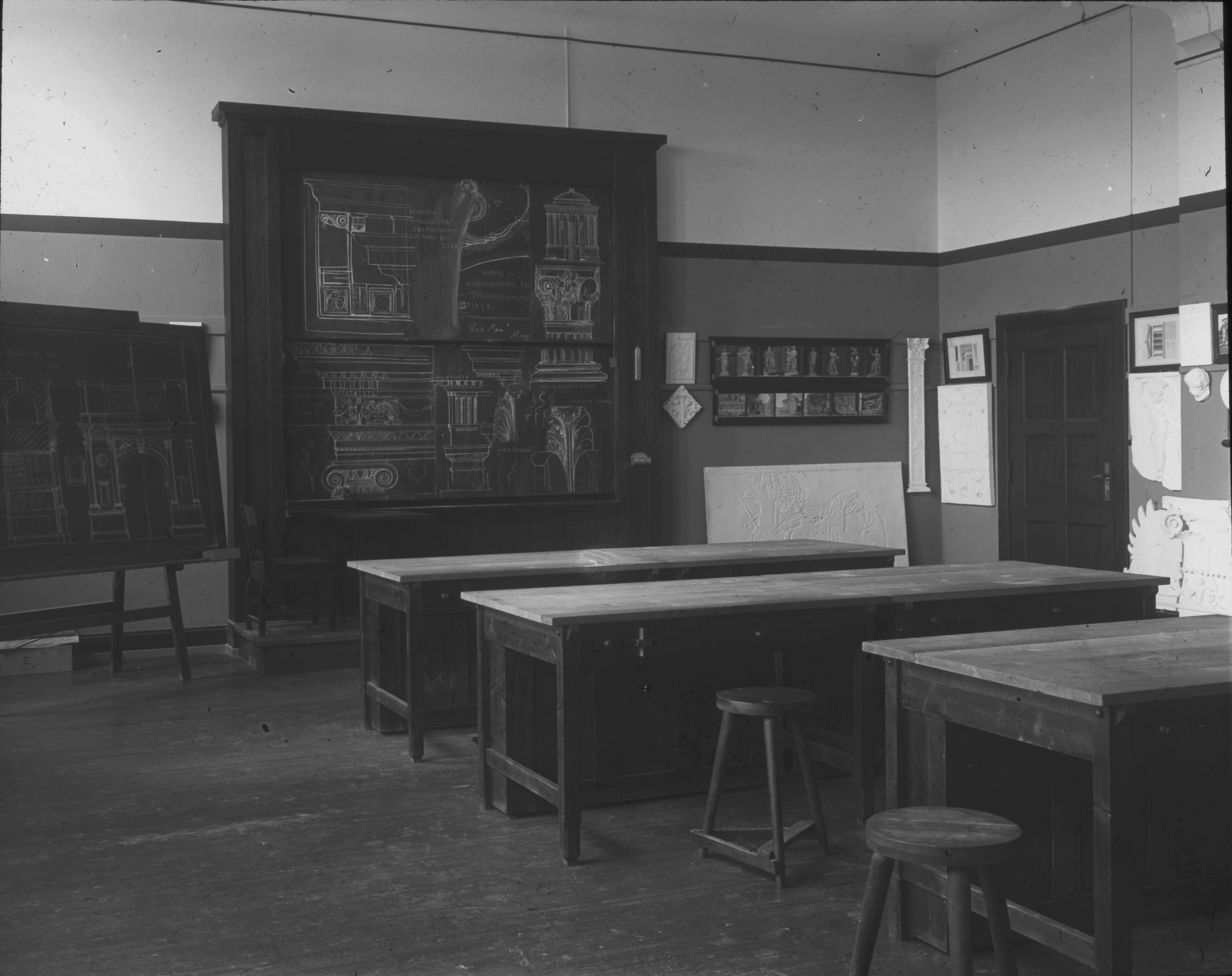 Blackboard drawing (of classical building details) by architect, professor Johan Meyer, NTH (=Norwegian institute of technology, Trondheim